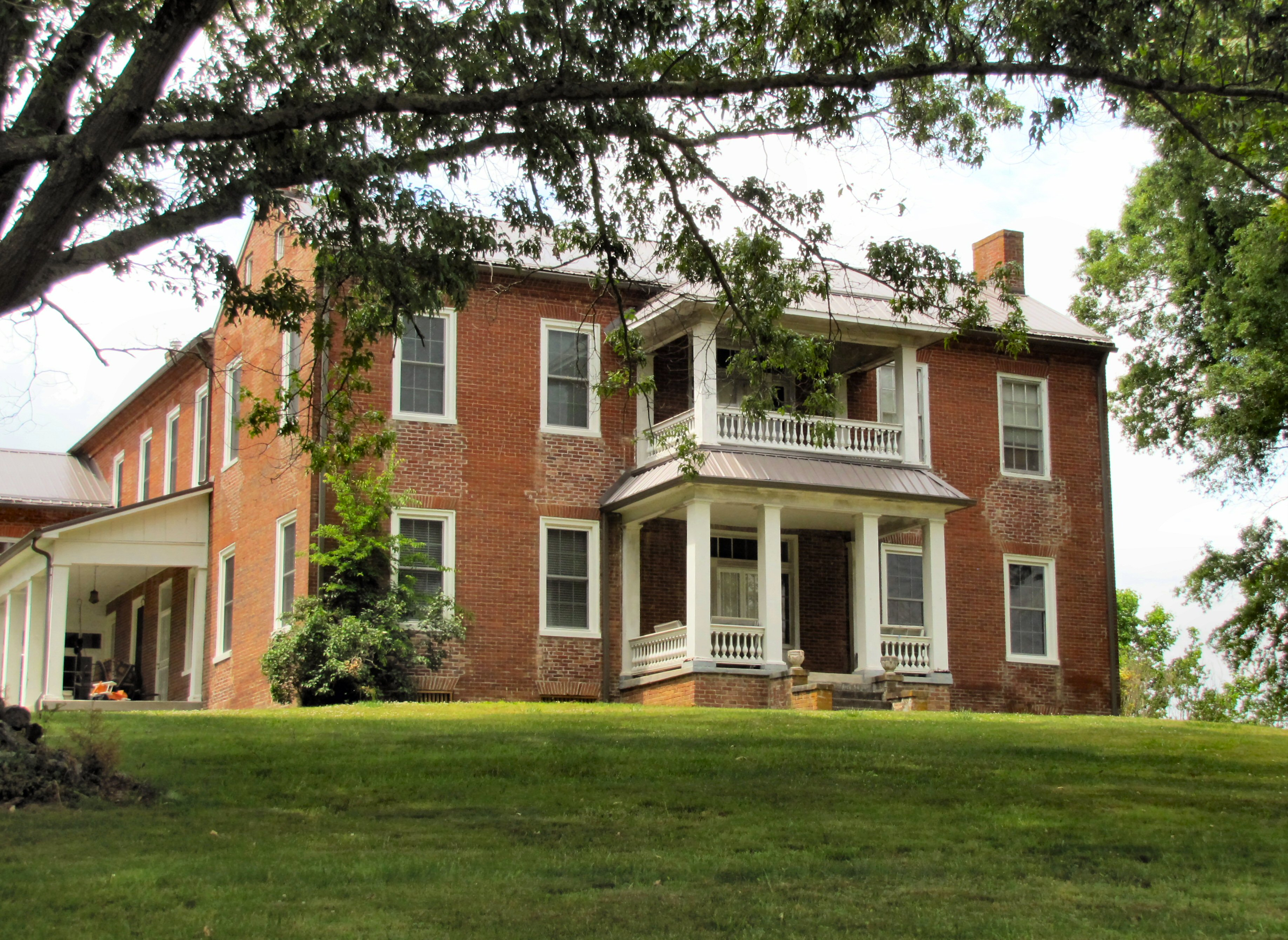 The Lawson Franklin House in White Pine, Tennessee, United States. Built circa 1837, this house is now listed on the National Register of Historic Places.